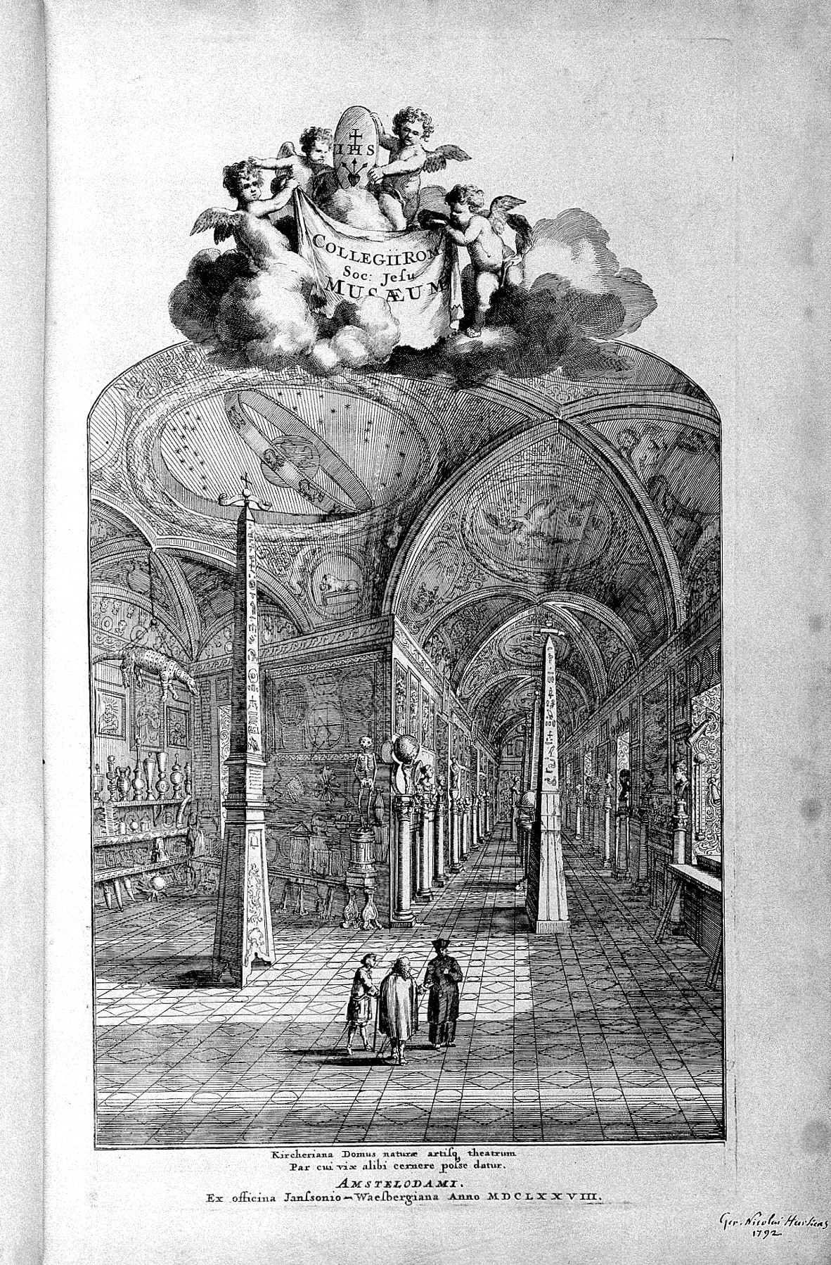 Frontispiece illustration. Rare Books